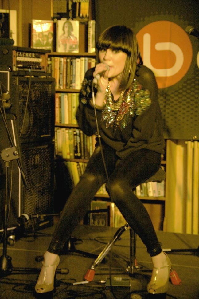 Jessie J performing at Get It Loud In Libraries at Lancaster Library on Dec 8th 2008.